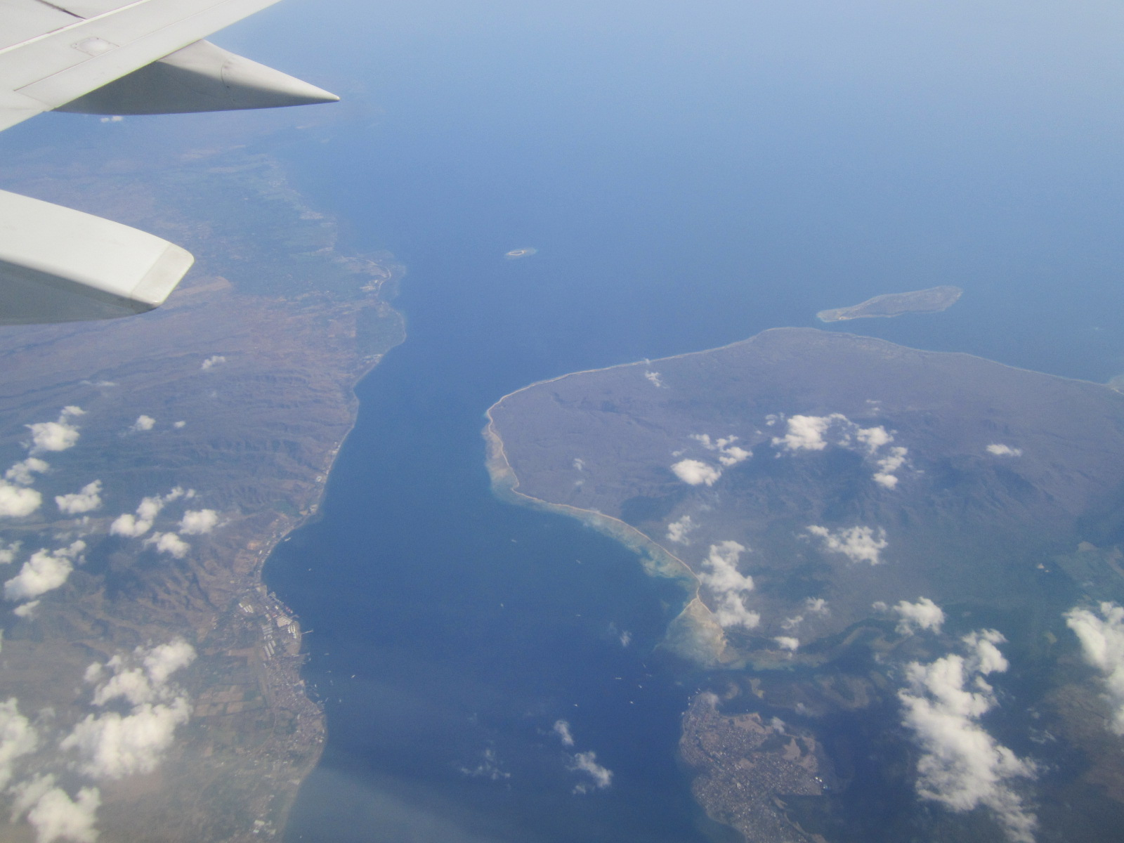 The narrow channel separating Java (on the left) from Bali (on the right)